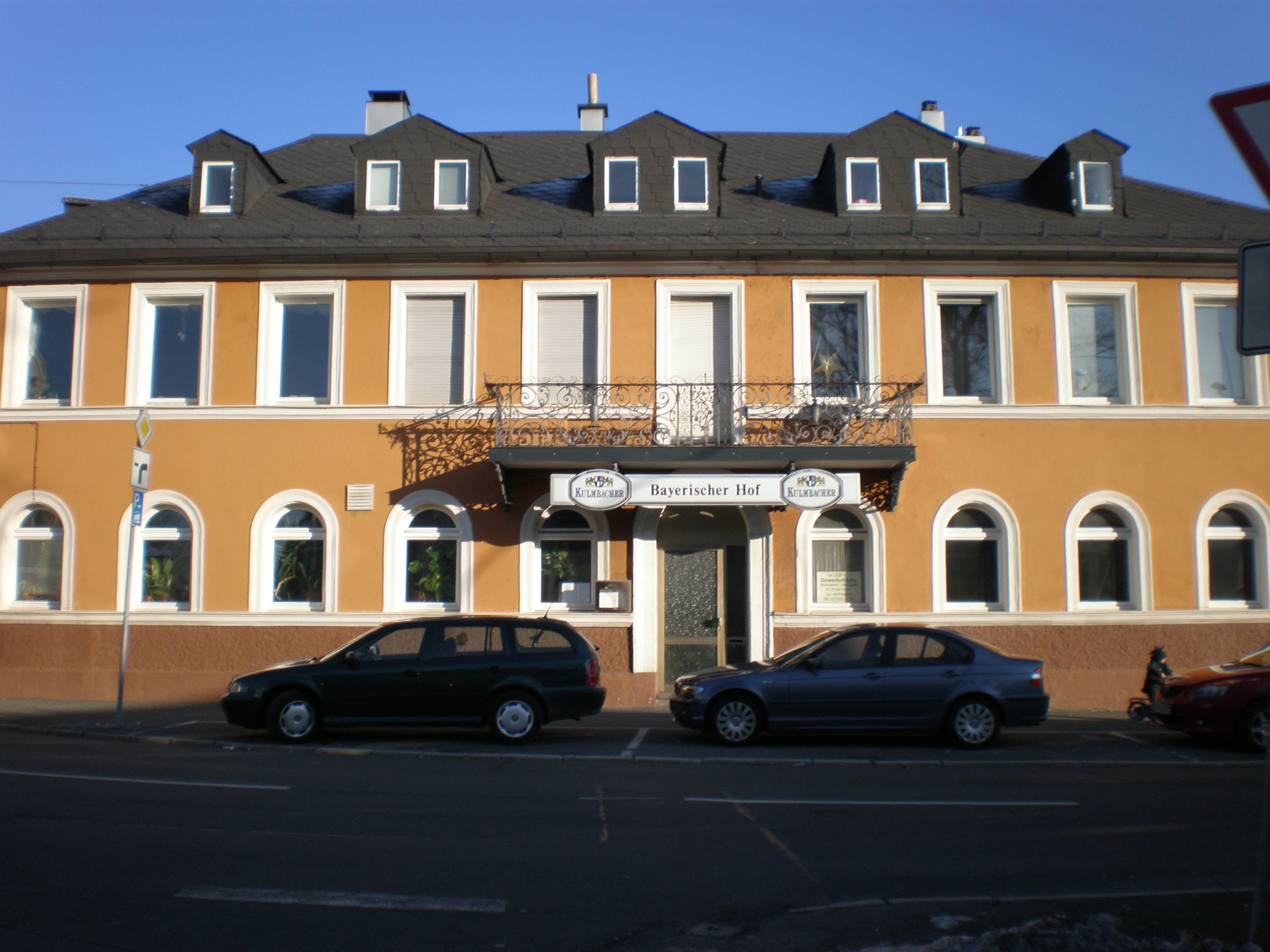 The guesthouse "Bayerischer Hof" in Münchberg.